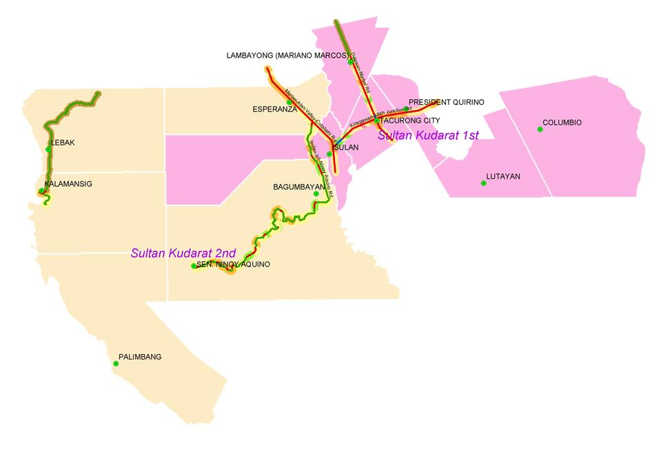 The districts of Sultan Kudarat. Both 1st and 2nd districts. National road also reflect in the map.